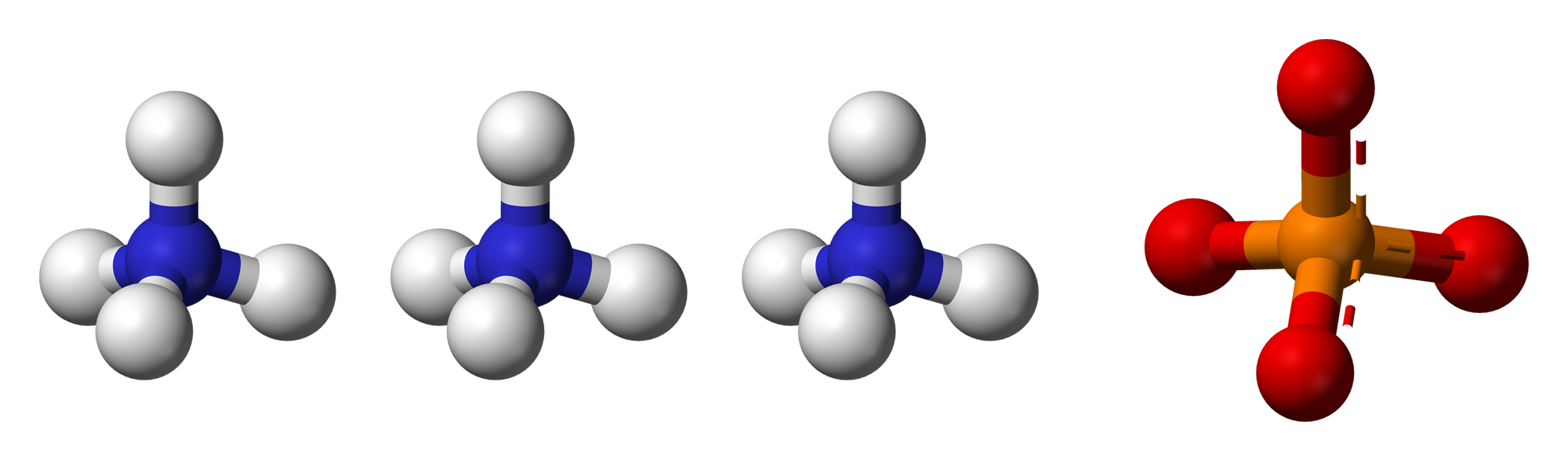 Ball-and-stick model of triammonium phosphate, showing three ammonium cations and one phosphate anion.